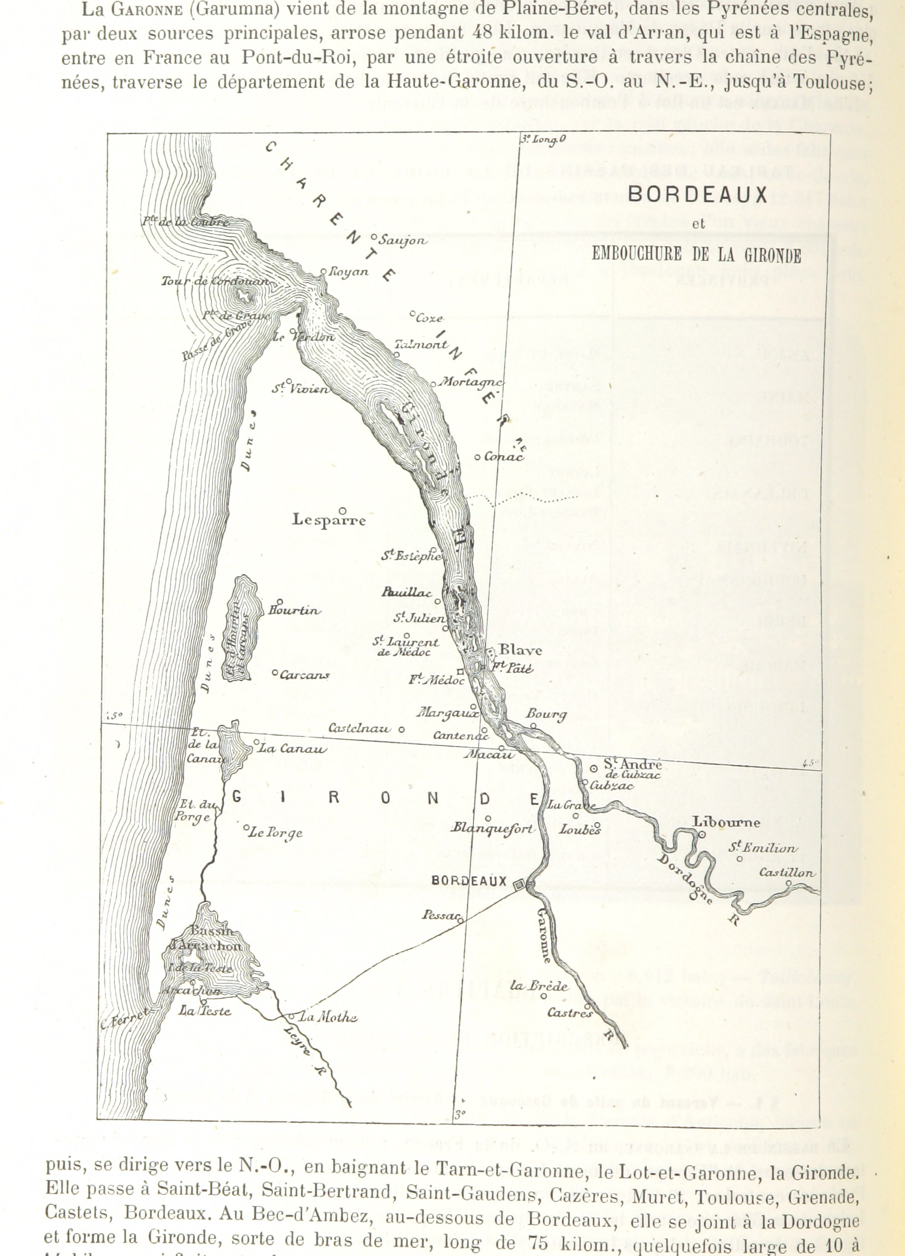 View this map on the BL Georeferencer service. Image taken from: Title: "Géographie générale; physique, politique et économique. ... Avec ... cartes ... gravures, etc" Author: GRÉGOIRE, Louis - Dr Shelfmark: "British Library HMNTS 10002.g.9." Page: 206 Place of Publishing: Paris Date of Publishing: 1876 Issuance: monographic Identifier: 001504704 Explore: Find this item in the British Library catalogue, 'Explore'. Download the PDF for this book (volume: 0) Image found on book scan 206 (NB not necessarily a page number) Download the OCR-derived text for this volume: (plain text) or (json) Click here to see all the illustrations in this book and click here to browse other illustrations published in books in the same year. Order a higher quality version from here.